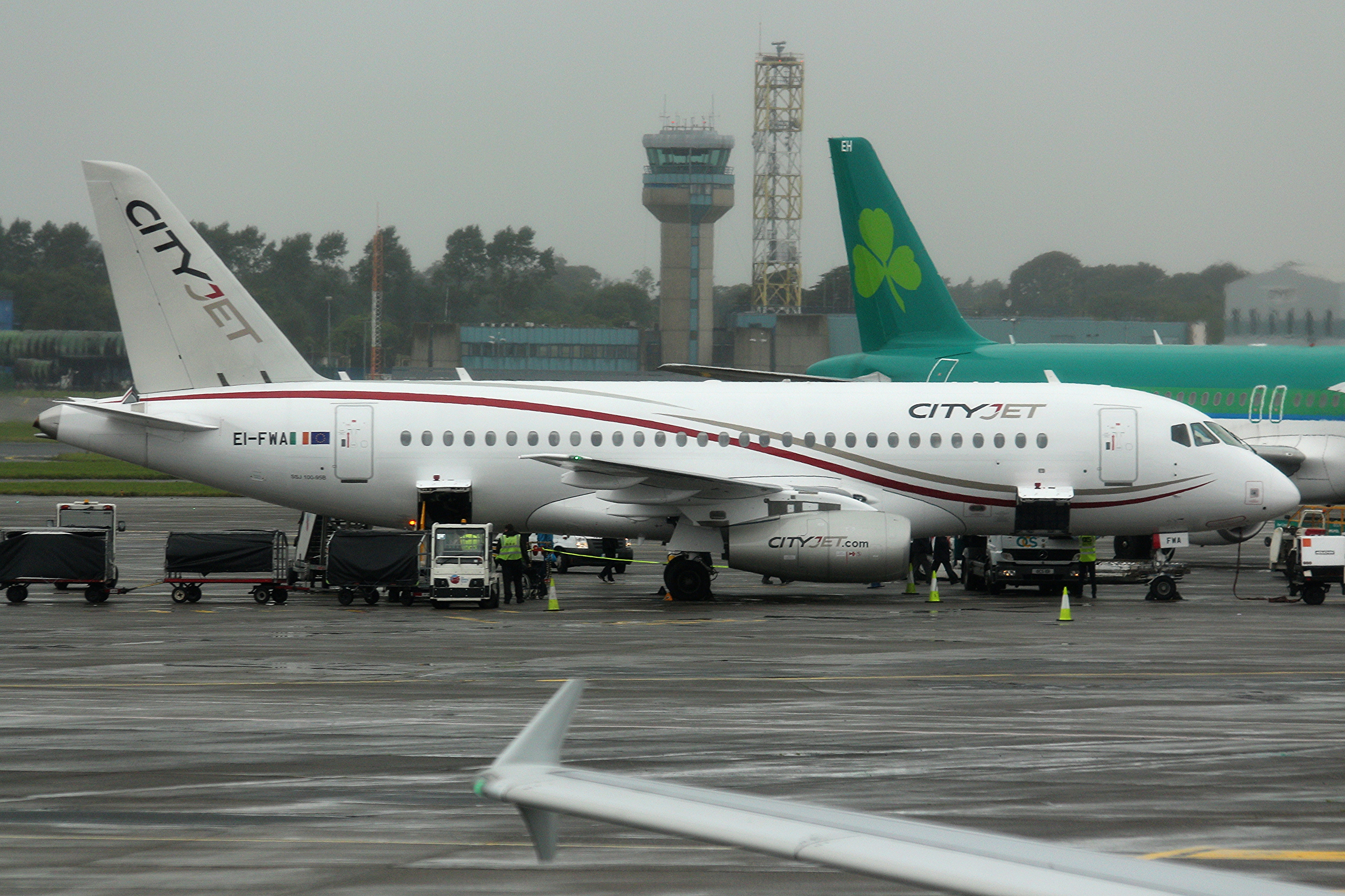 EI-FWA - Cityjet Sukhoi Superjet 100-95B - CityJet at Dublin Airport